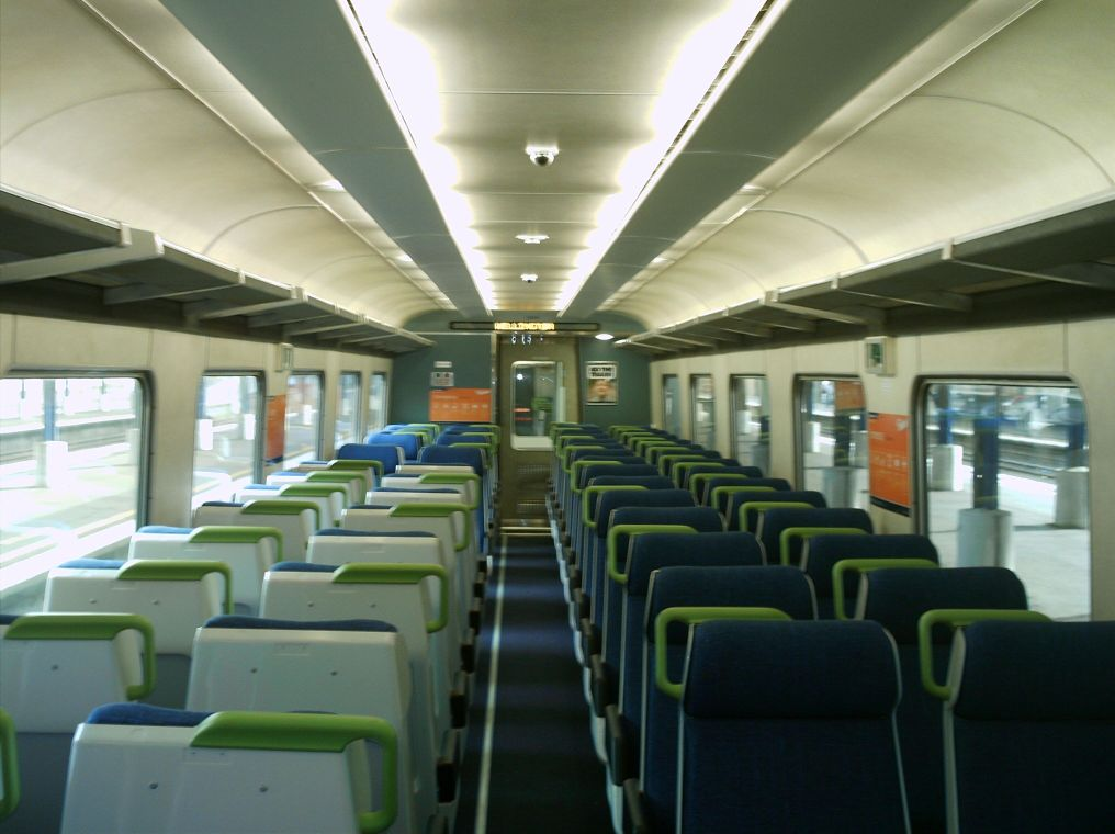 Interior photo of carriage used by an NZR EA Class locomotive in Wellington, New Zealand